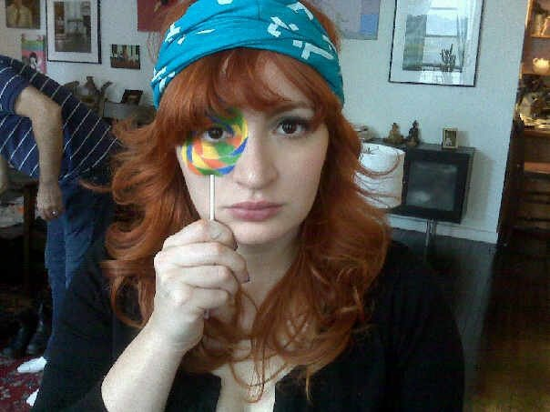 Chantal Claret Lollipop